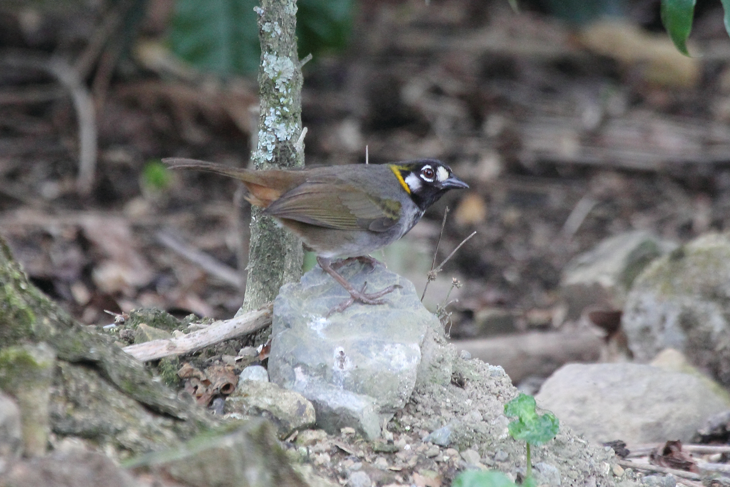 White-eared Ground-Sparrow (Melozone leucotis). Photographed at Tapanti National Park, Costa Rica.